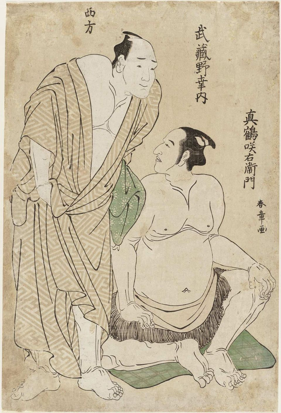 woodblock print by Katsukawa Shunshō, the Sumō wrestlers Manazuru Sakiemon and Musashino Kōnai, c. 1780